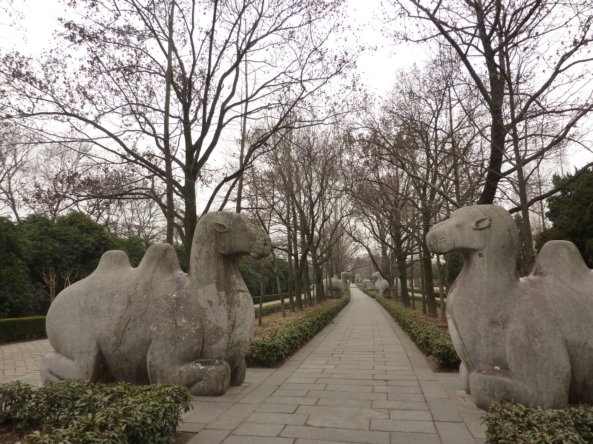 The 615-m long Stone Elephant Road is the first section of the Spirit Way (Shendao) of the Ming Xiaoling Mausoleum. It is lined with several kinds of stne animals - lions, xiezhi, camels, elephants, qilin (Chinese unicorns), and horses.